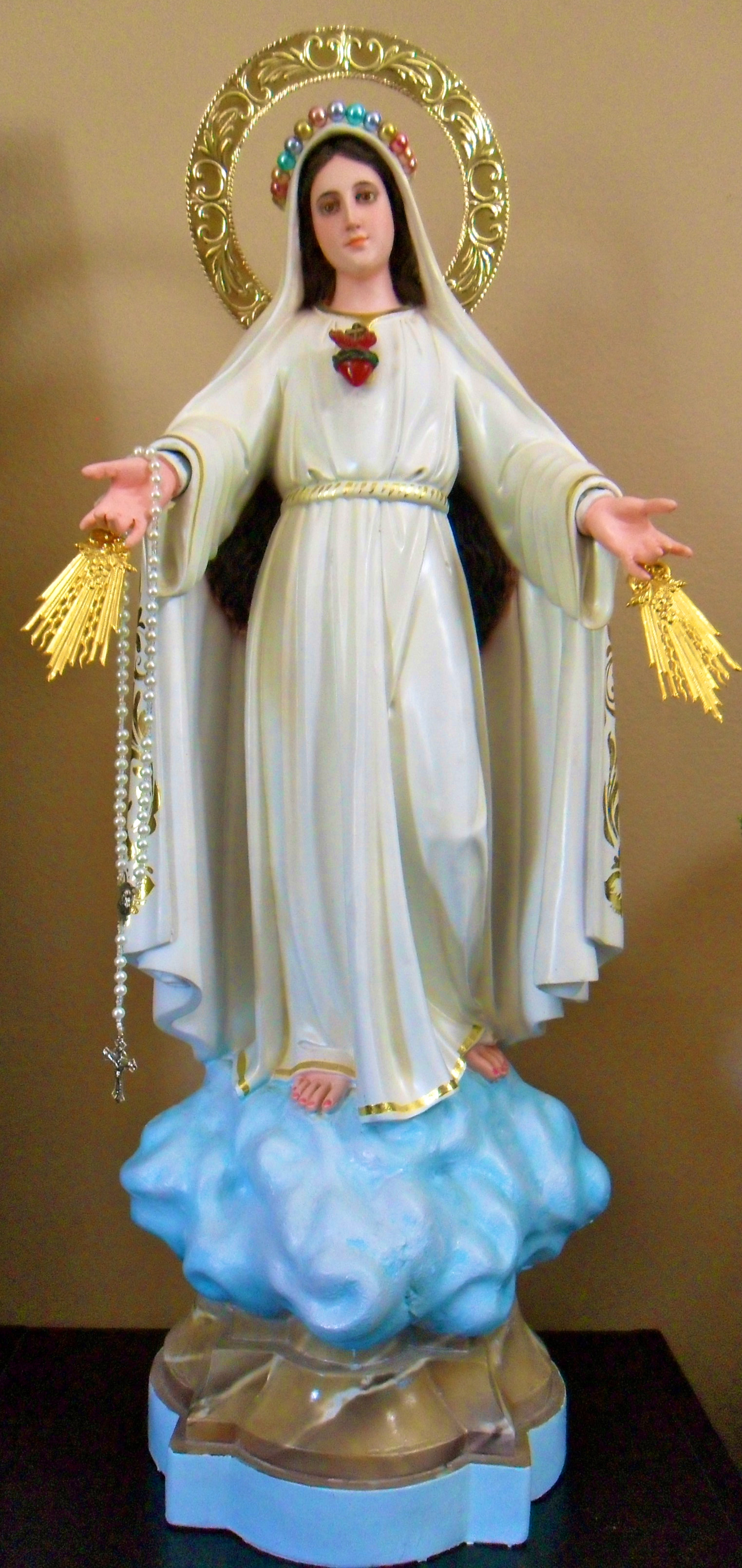 My personal statue of Our Lady Mediatrix of All Graces from Lipa Batangas, blessed by Archbishop Oscar Cruz. Philippines. Personal work Unknown roman catholic church